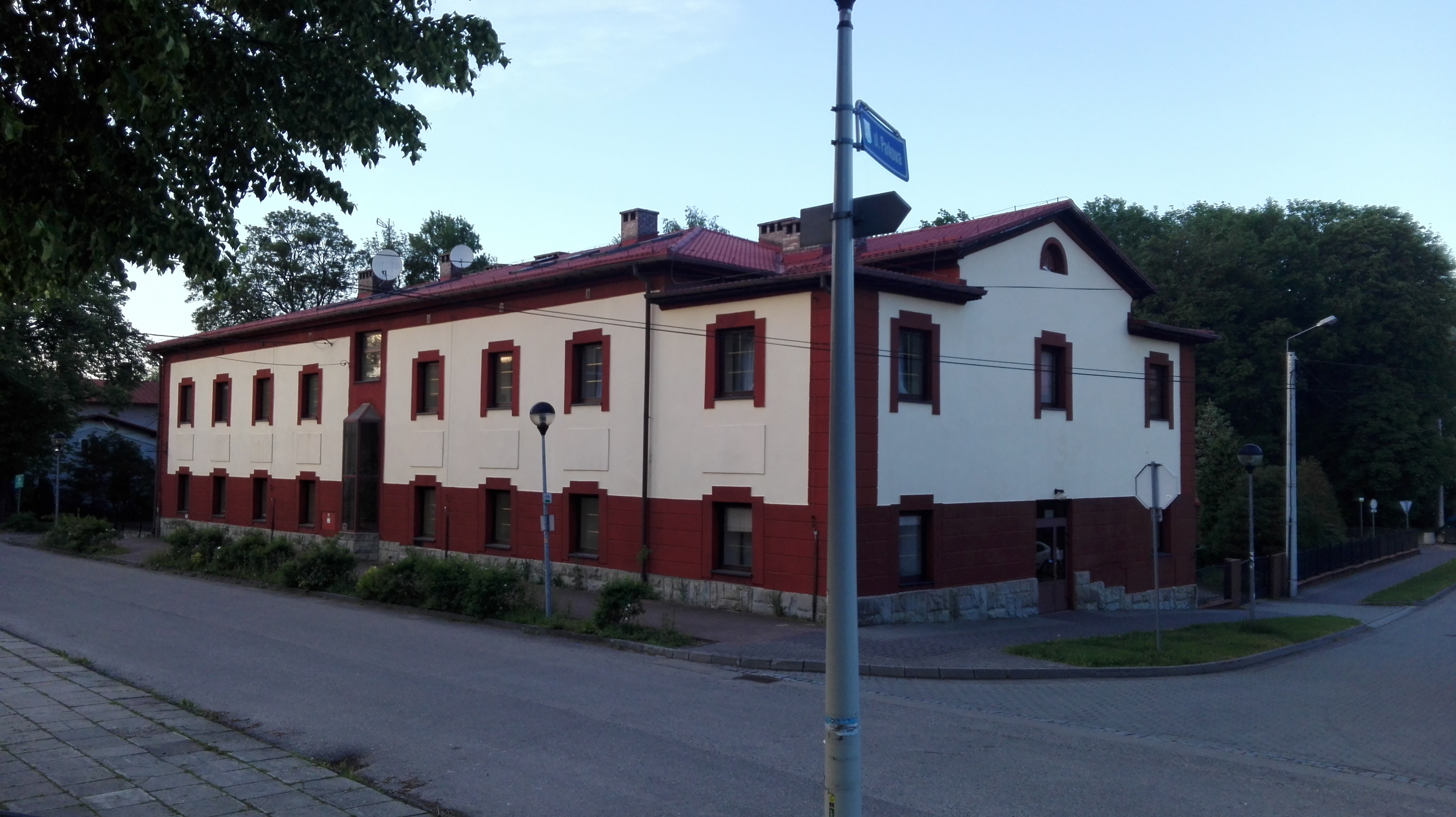 7 Hutnicza Street in Ustroń